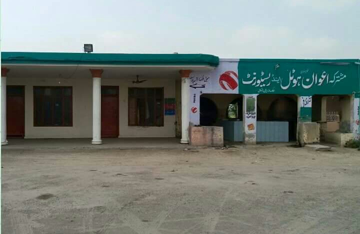 I also Uploaded this Photo on Botala Facebook Page & on website